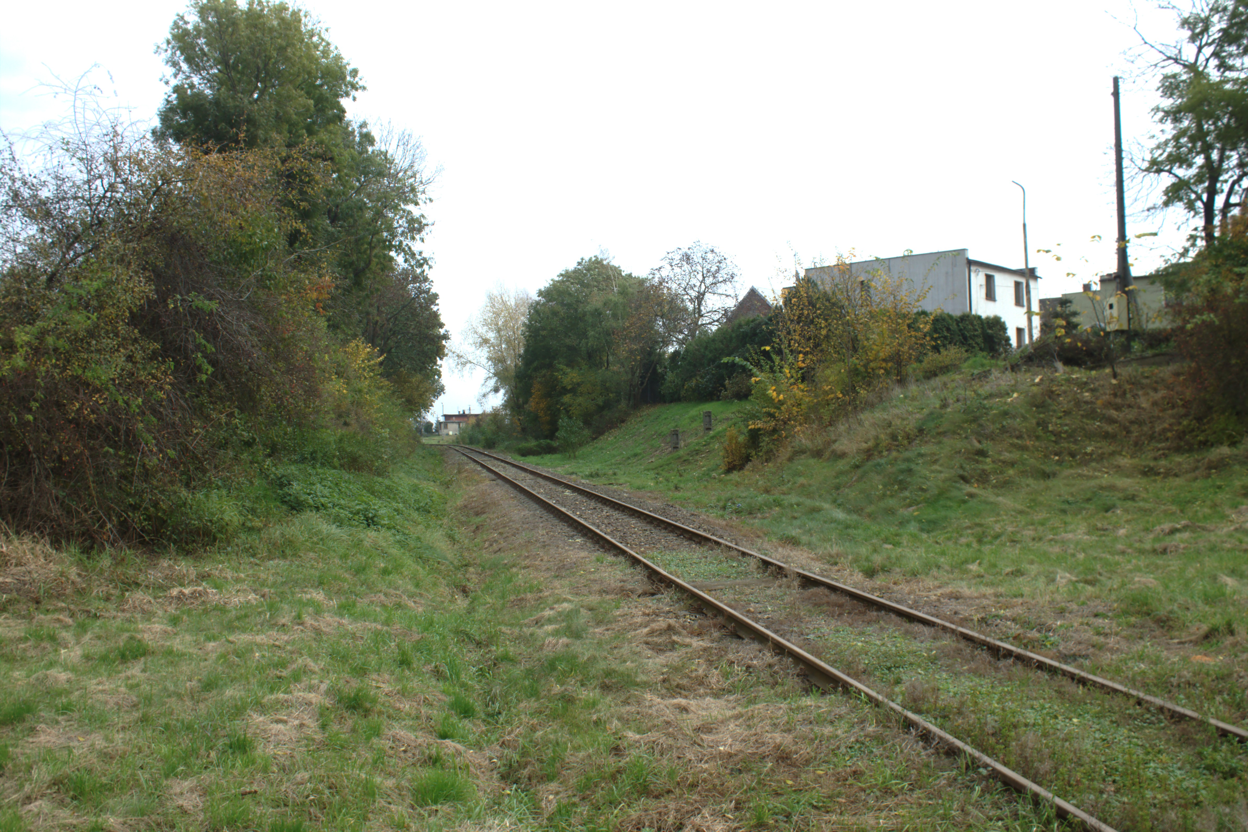 An abandoned railway line no. 177 in Wojnowice, Poland